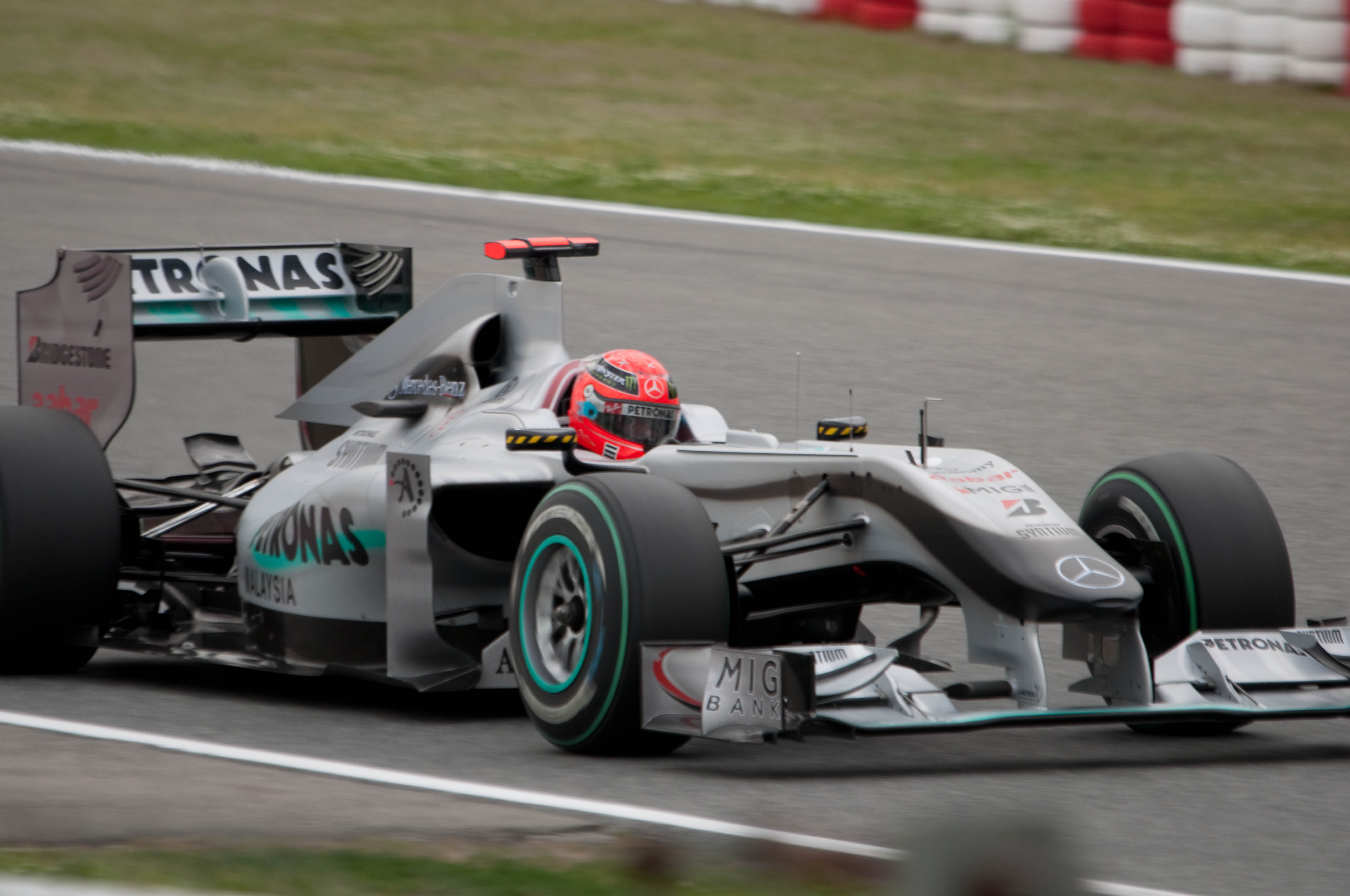 Michael Schumacher driving for Mercedes GP at the 2010 Spanish Grand Prix.